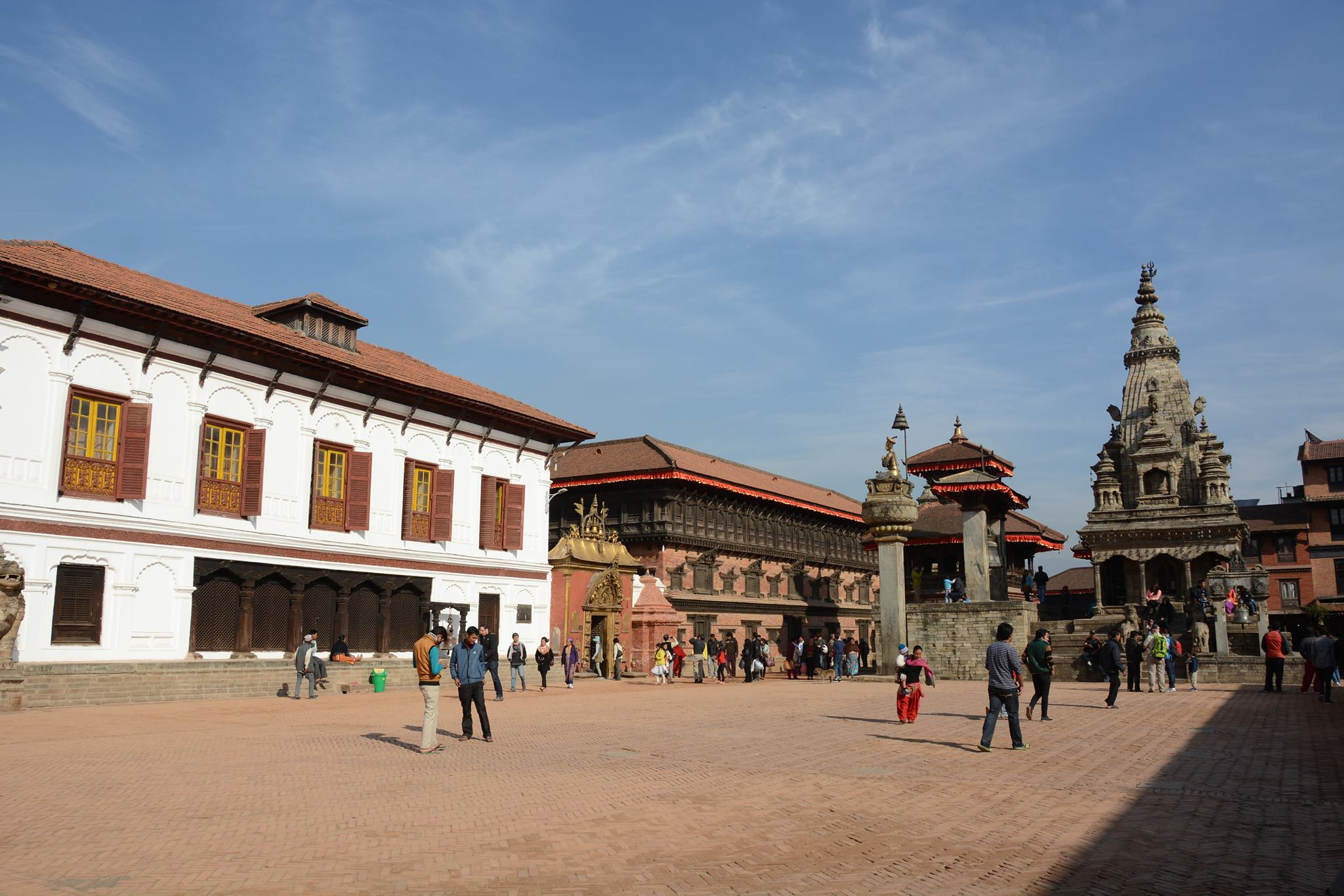 Bhaktapur Durbar Square, Bhaktapur